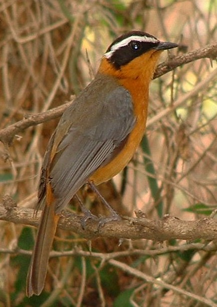 Location: Ngwenya Lodge, Mpumalanga, South Africa. For more information on this species